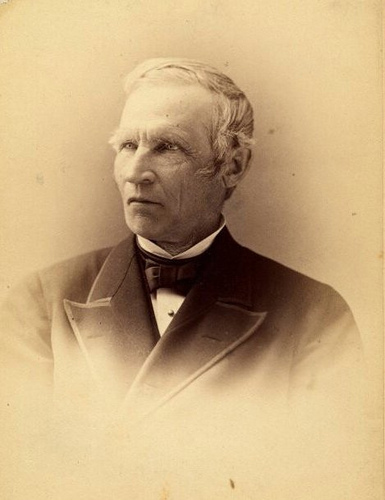 Portrait of Noah Porter, president of Yale University from 1871 to 1886. Image courtesy of Yale University Manuscripts & Archives Digital Images Database. Retouched by MarmadukePercy.